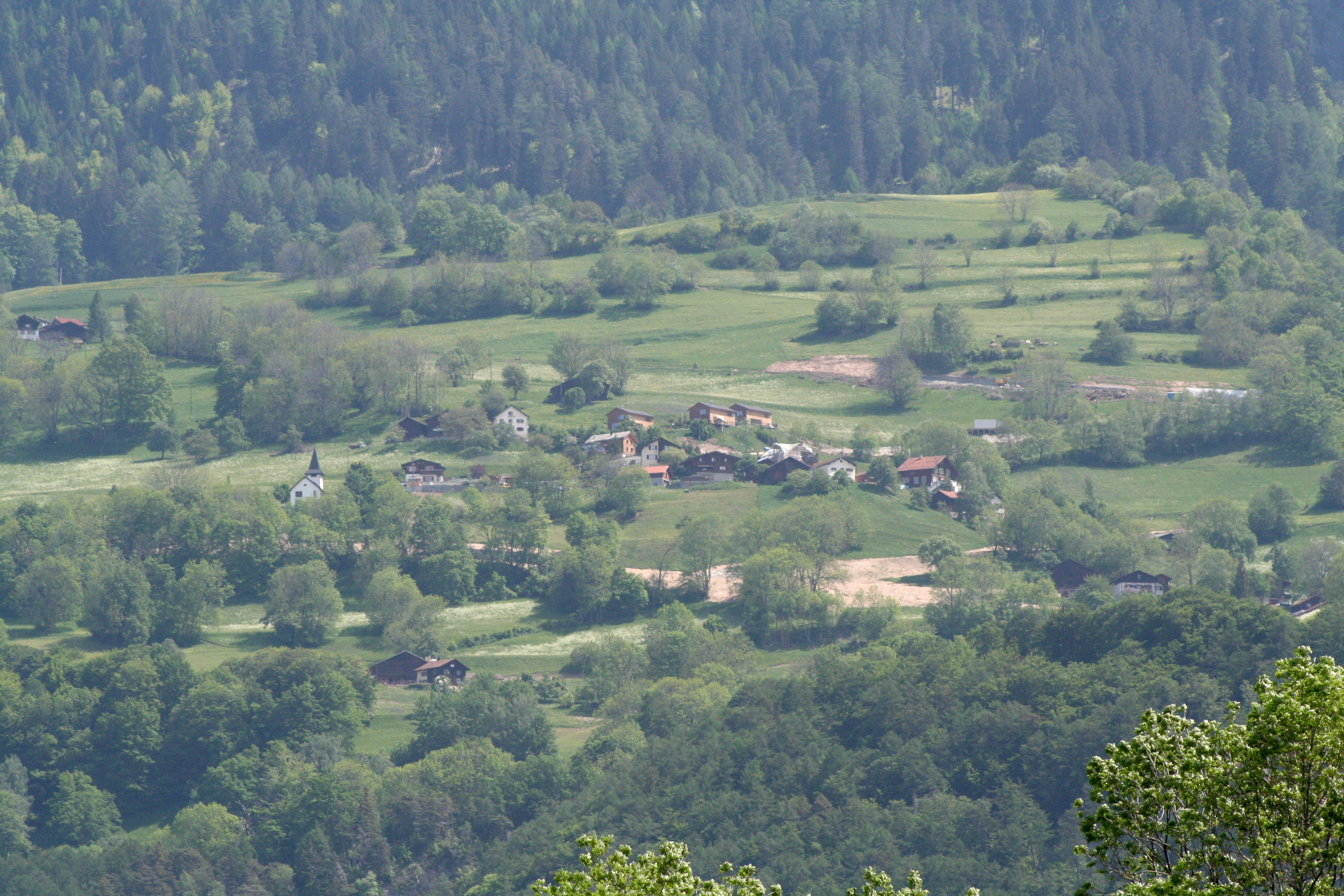 Says oberhalb Trimmis GR